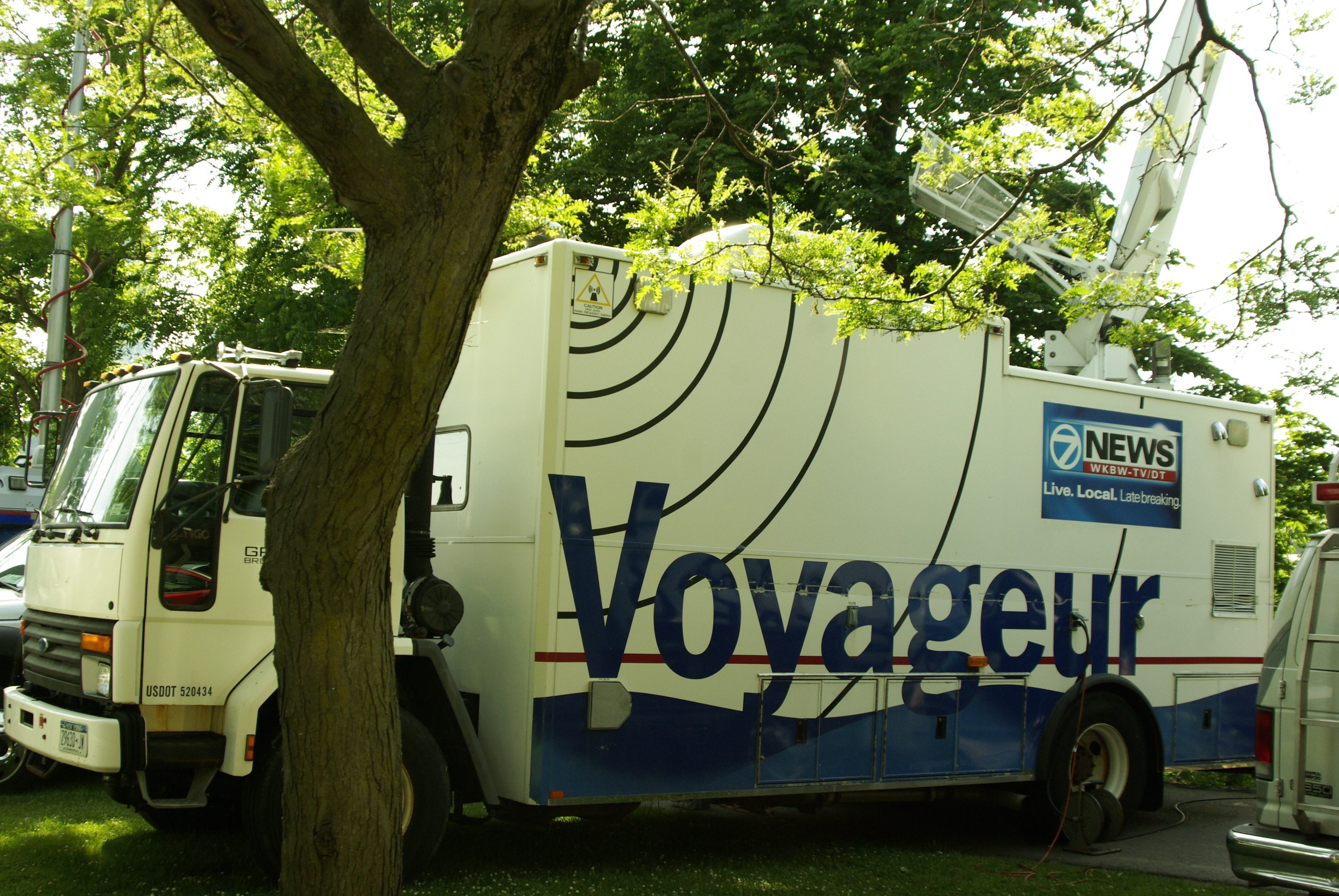 A WKBW news vehicle.